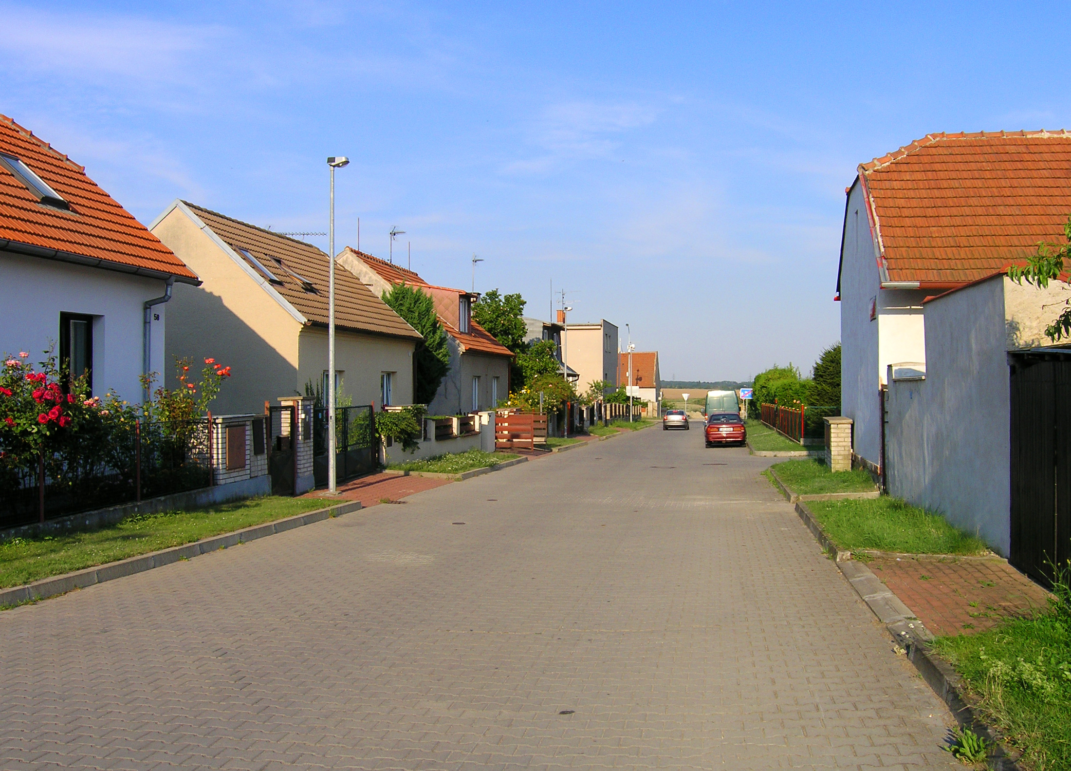 Ke Zdibům street in Březiněves, Prague